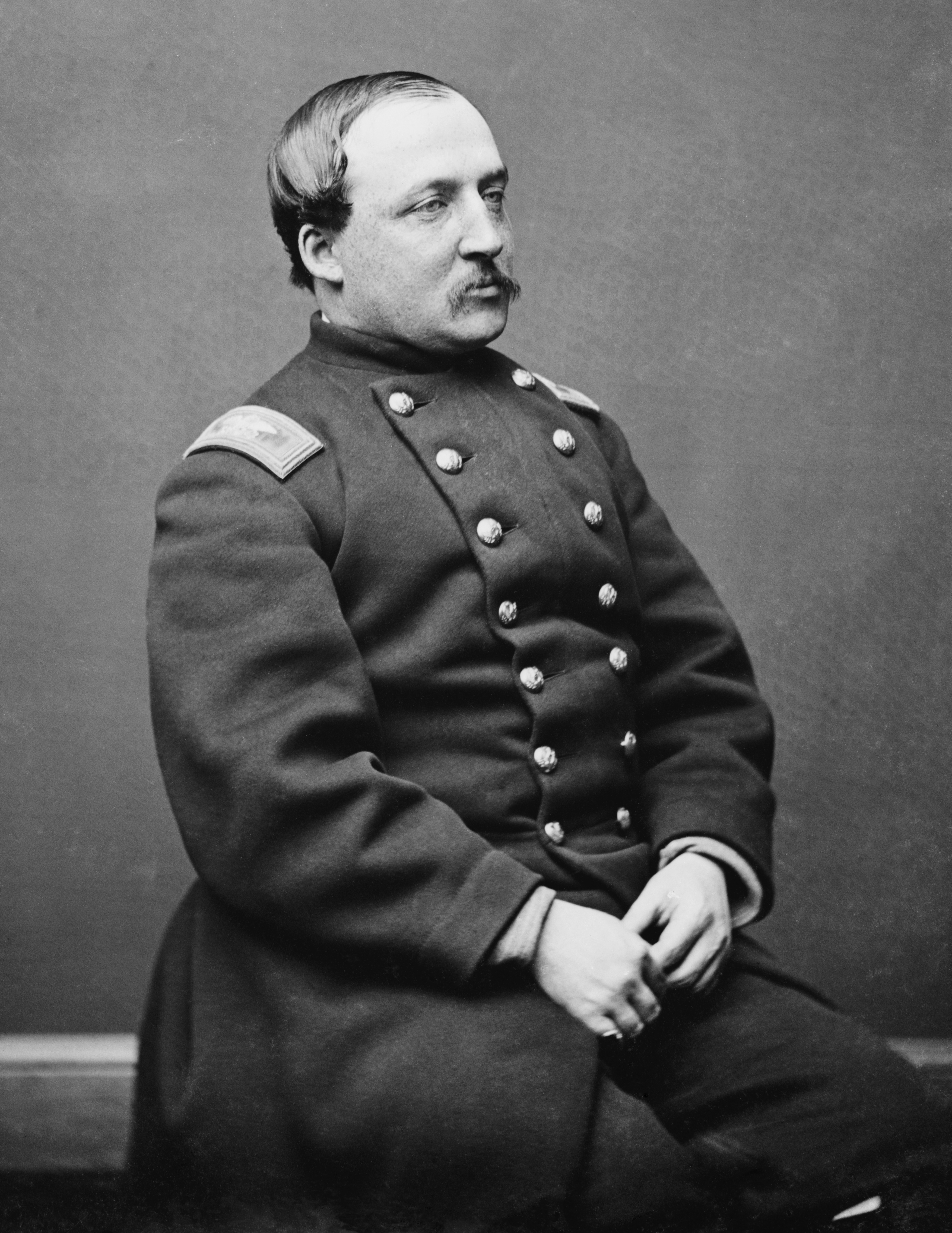 William Dwight, Jr. (1831–1888), was a general in the Union Army during the American Civil War. This photo is circa 1861 since he is given as "Colonel" in the caption, before his promotion after being wounded in the battle of Williamsburg and taken prisoner. Two of his brothers died in the war.